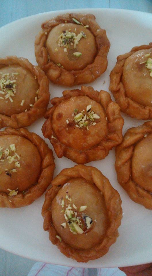 Chandrakala is a dessert from Northern India, similar to gujiya. The ingredients are quite similar but the preparation process is a bit different.